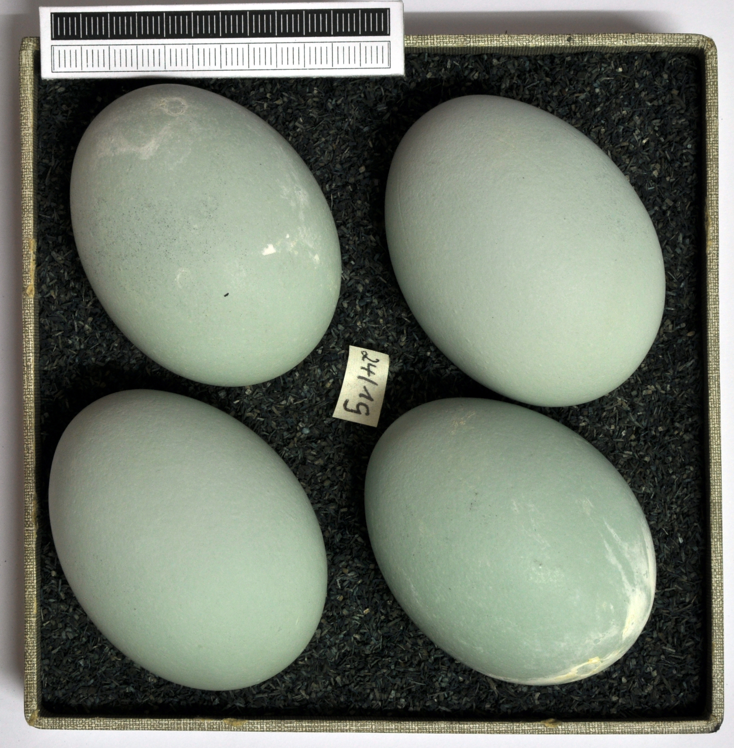 Grey heron Ardea cinerea, egg, Coll. Museum Wiesbaden, Origin: Au, Bavaria, 05.04.1972, leg. W. Abelmann